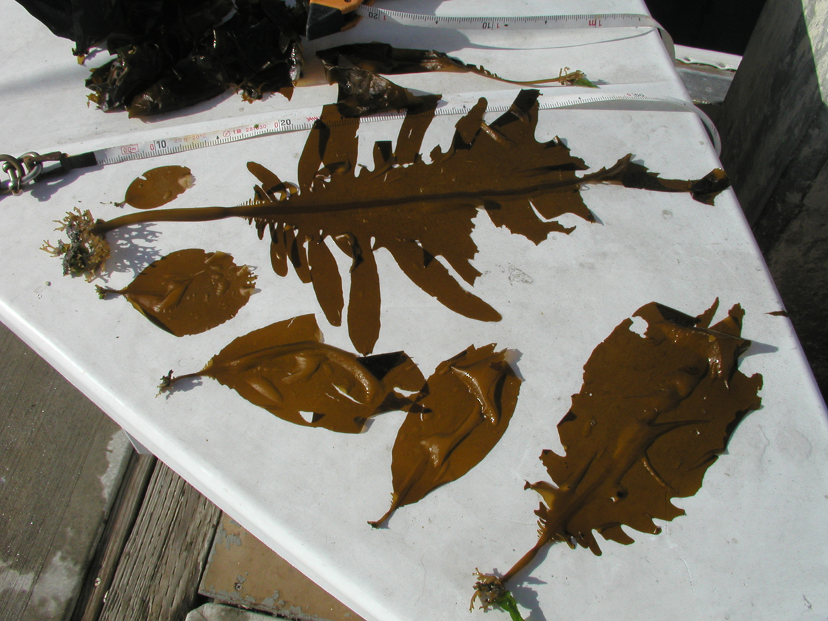 Here is a progression of Asian kelp Undaria pinnatifida from new recruits to young adults. Specimens collected in Monterey Harbor.